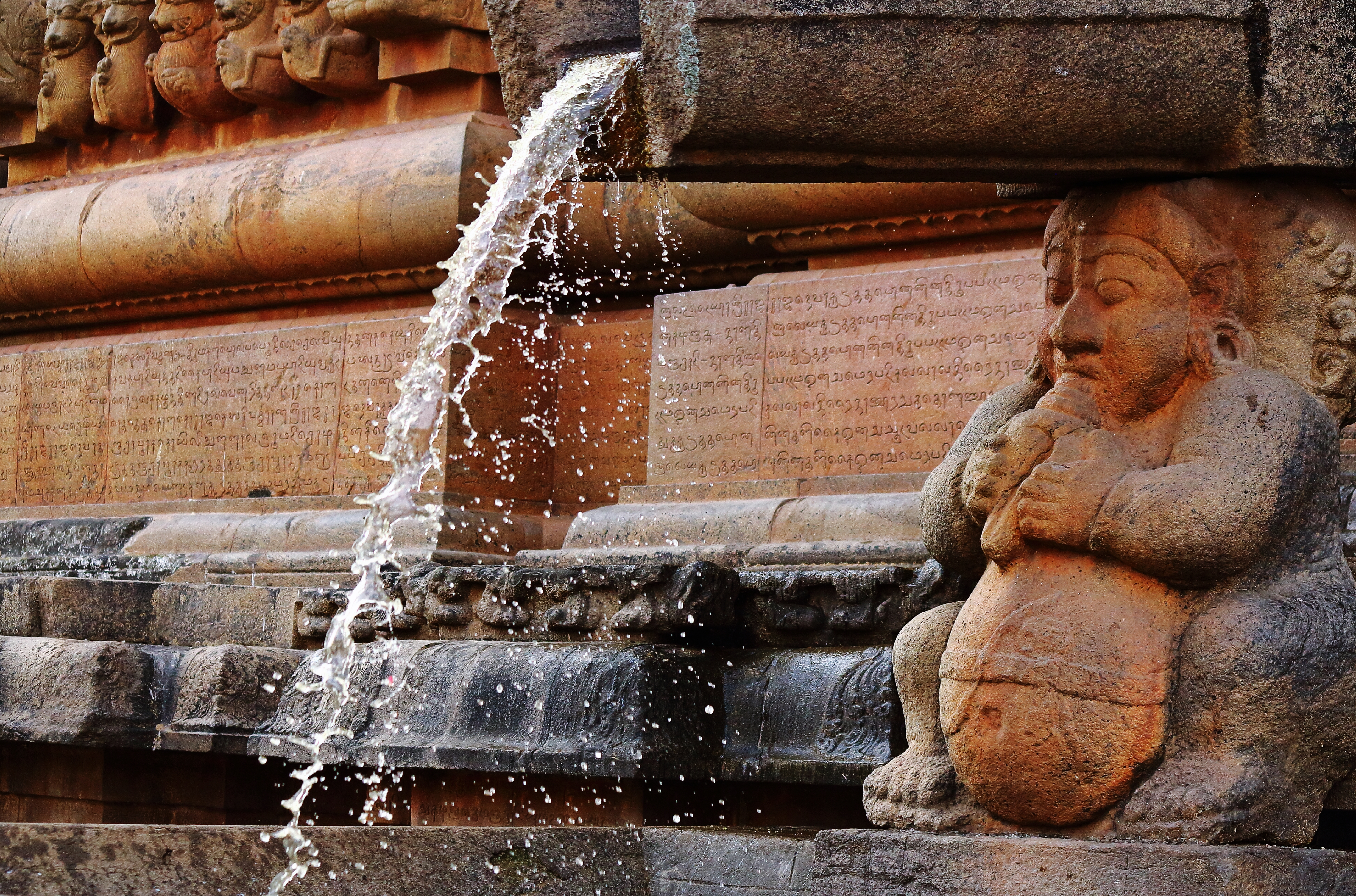 Holy 'Abisheka' (the process of bathing the deity) water coming out of decorative sprout curiously watched(?) by 'Boothagana' at Brihadeeswarar Temple